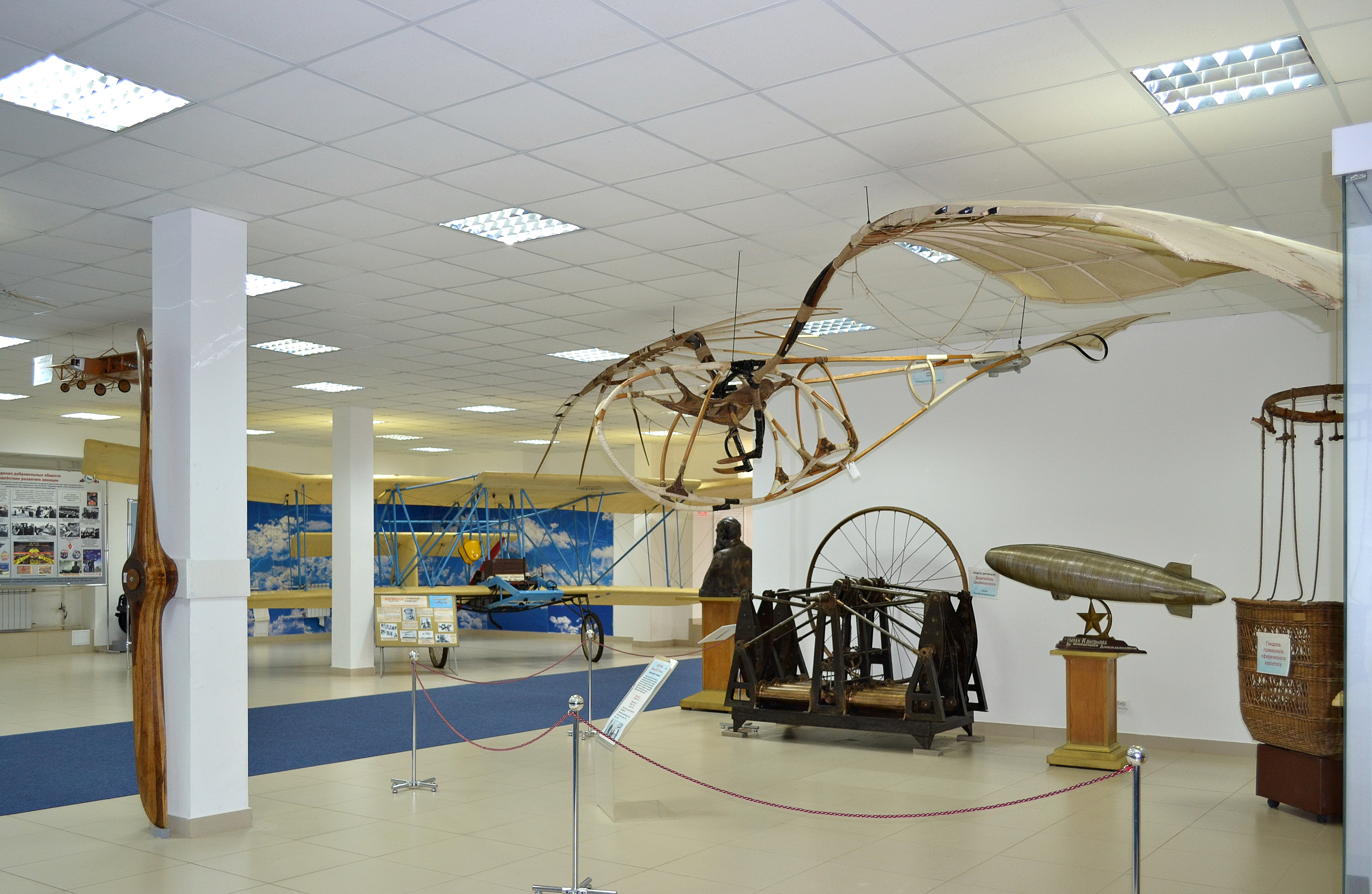 A hall of the Central Air Force Museum in Monino, Russia. The exhibits: The ceiling-mounted aircraft is Letatlin No. 3, the human-powered ornithopter created in 1929—1932 by Vladimir Tatlin. The exhibits at the wall, from right to left: the basket of a tethered spherical balloon (Russia, the beginning of 20th c.), the model of the dirigible of Konstantin Tsiolkovsky, the gasoline engine constructed by Ognjeslav Kostović (Russia, 1883). The biplane in the background is the French aircraft Farman IV (1910–1916).